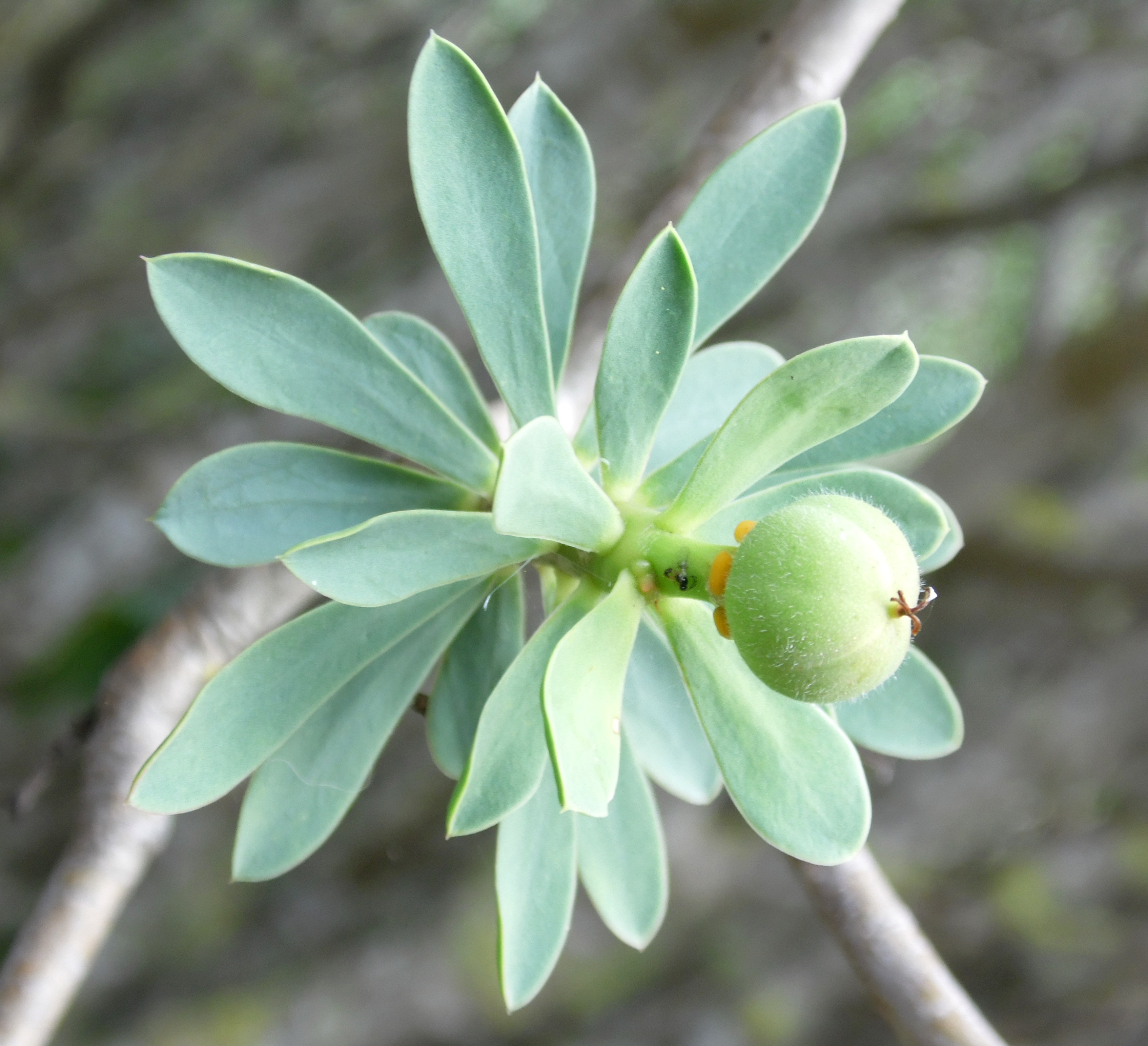 Fruit of Euphorbia balsamifera in Jardín Botánico Canario Viera y Clavijo